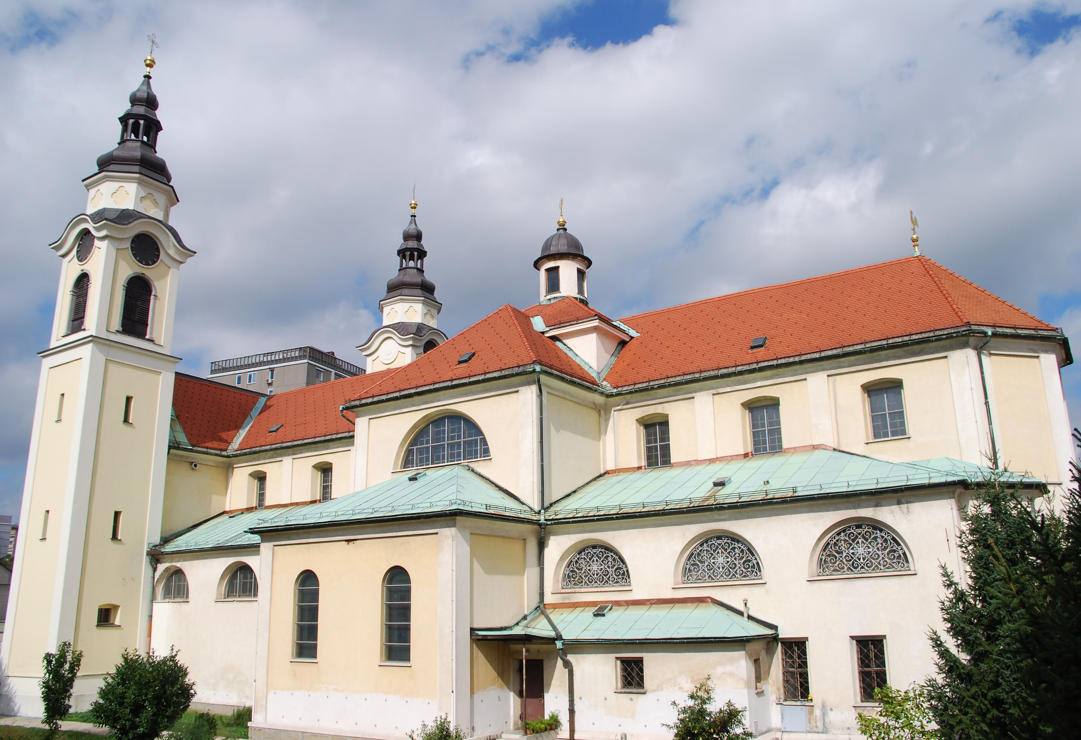 St. Peter's Church in Ljubljana (Center District). Photo taken through a window at the Institute of Biophysics.